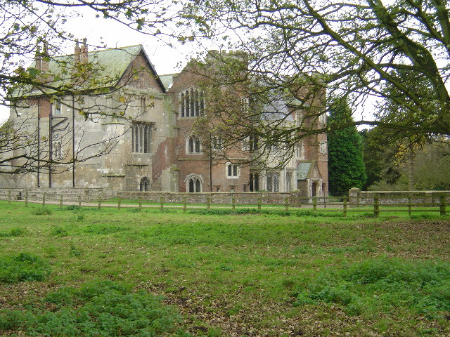 Watton Abbey, near Watton, East Riding of Yorkshire, England.There is a ruin at the back of this building and what was the abbey is not clear; a link may help.